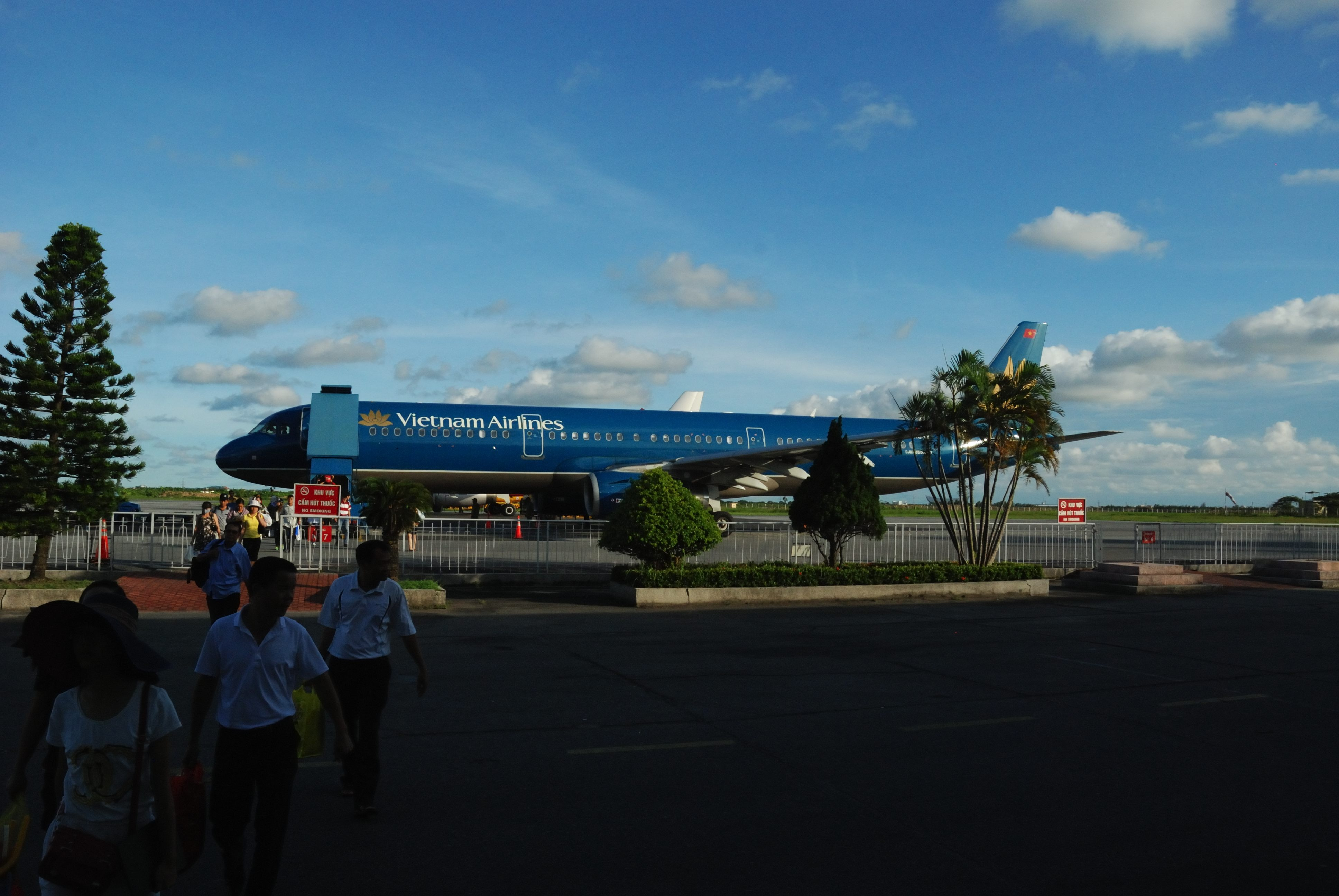 Landed at Catbi Airport